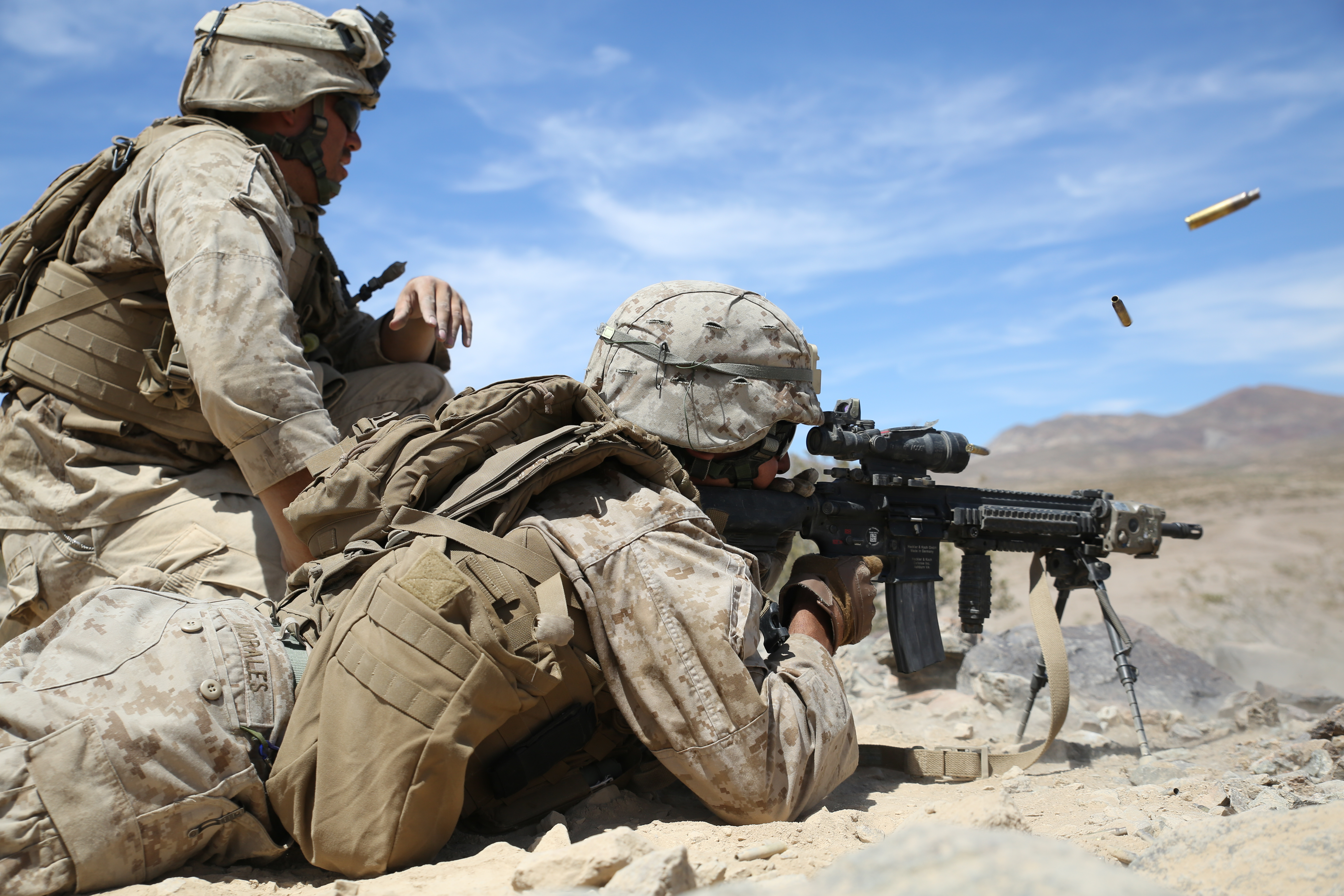 Army National Training Center Fort Irwin, California - A Marine with Company F, 4th Light Armored Reconnaissance Battalion, fires the M136 AT4 Rocket Launcher at a bunker during a live-fire exercise at the Army National Training Center Fort Irwin, California, July 13, 2014. The Marines completed a multitude of live-fire exercises and tested the capabilities of the companies within 4th LAR. This was part of 4th LAR’s annual training, which was the first time since the battalion’s deployment to Afghanistan in 2009 – 2010 that the companies within the battalion worked together.